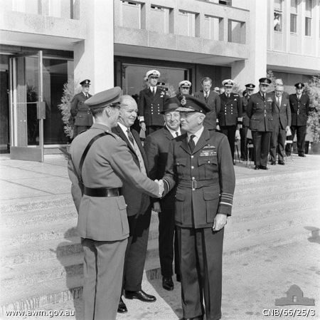 Sourced from: Copyright: The AWM record for this photo states that the copyright status is 'clear'. AWM Caption: Air Chief Marshal Sir Frederick Scherger shakes hands with his successor Lieutenant General Sir John Wilton, Chief of the Army General Staff. Looking on is the Defence Secretary Sir Edwin Hicks and the Defence Minister Mr Fairhall. All are present on the occasion of the retirement of Air Chief Marshal Sir Frederick Scherger, KBE, CB, DSO, AFC. Maker: Sebastian, Jeffrey G (Jerry) Place made: Australia: Australian Capital Territory, Canberra Date made: 18 May 1966